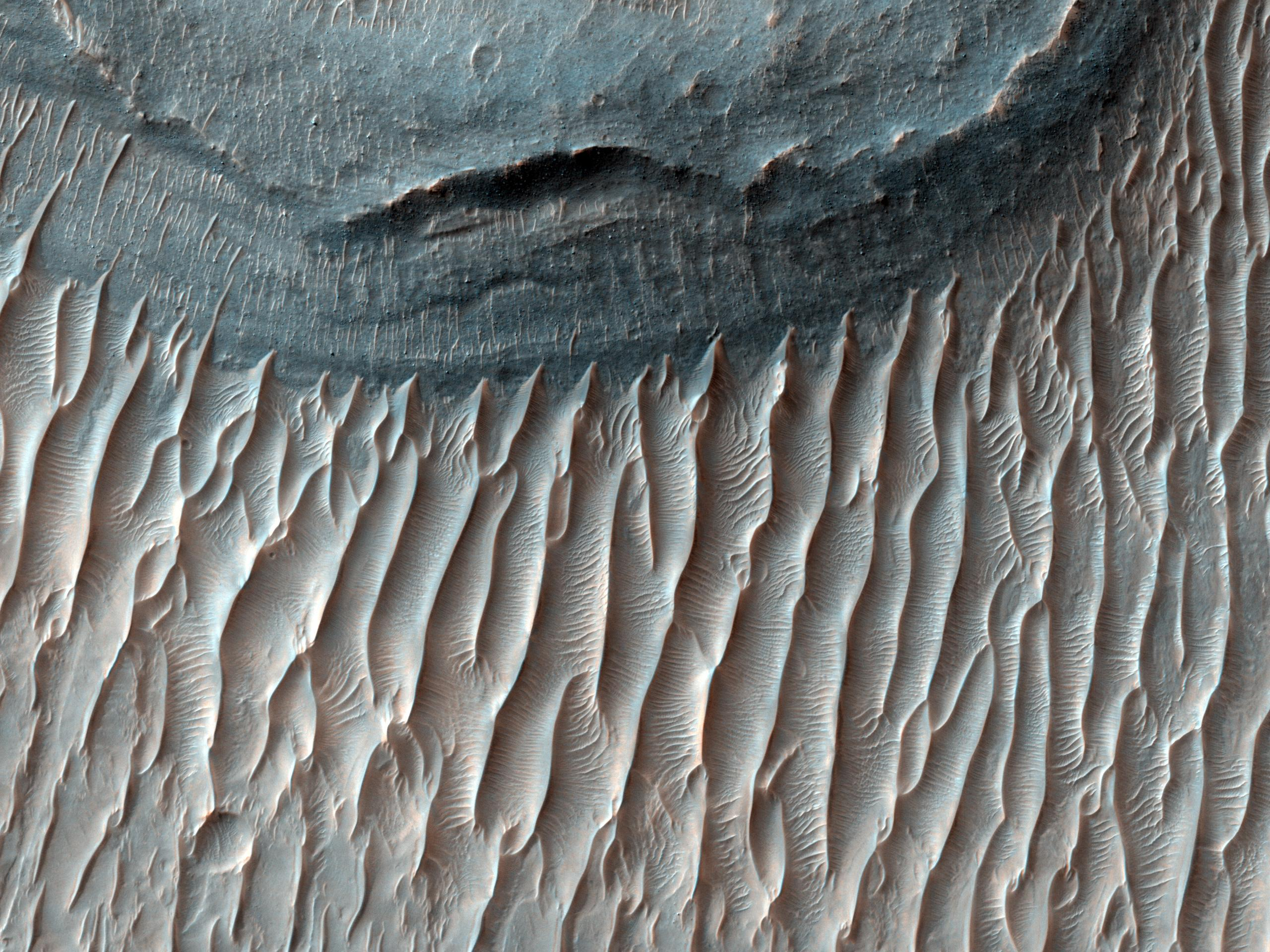 The Red Planet is home to Valles Marineris, the solar system's largest canyon. Within this canyon lies Ius Chasma. This image, which spans the floor of its southern trench, was taken by the Mars Reconnaissance Orbiter. The canyon is well-known for its fine stratigraphic layers modified by wind and water. The outcrops contain interchanging layers of dark and bright rocks. The layered deposits consist of dark basalt lava flows and bright sedimentary layers. The sediments are likely to be from atmospheric dust, sand or alluvium from an ancient water source. The layers are visible on the gentle slopes above the canyon floor, in pitted areas, and in small mesa buttes. The floor of the canyon is littered with megaripples that are aligned in a north-south direction. Ius Chasma is believed to have been shaped by a process called sapping when water seeped from the layers of the cliffs and evaporated before it reached the canyon floor. Ius Chasma also has several structural features such as east trending normal faults and grabens that deformed the canyons. Recent geomorphological events include avalanches and minor sapping from gullies that continued to erode the canyon walls.